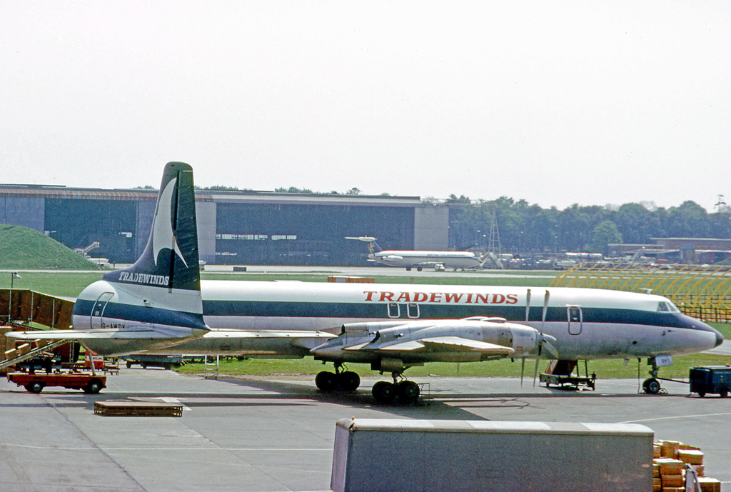 Canadair CL-44D G-AWGK of Tradewinds Airways at London Gatwick in 1974